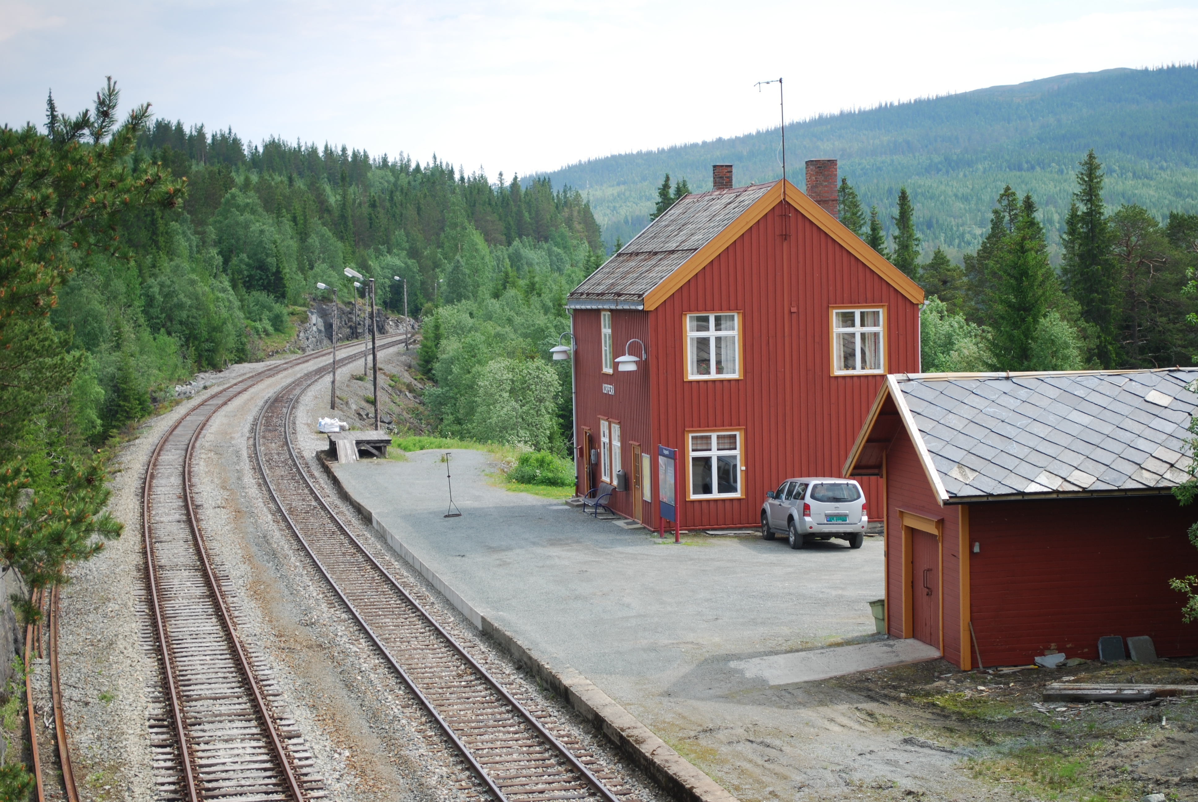 Kopperå train stasjon in Meråker (Kopperå), Nord-Trøndelag, Norway.